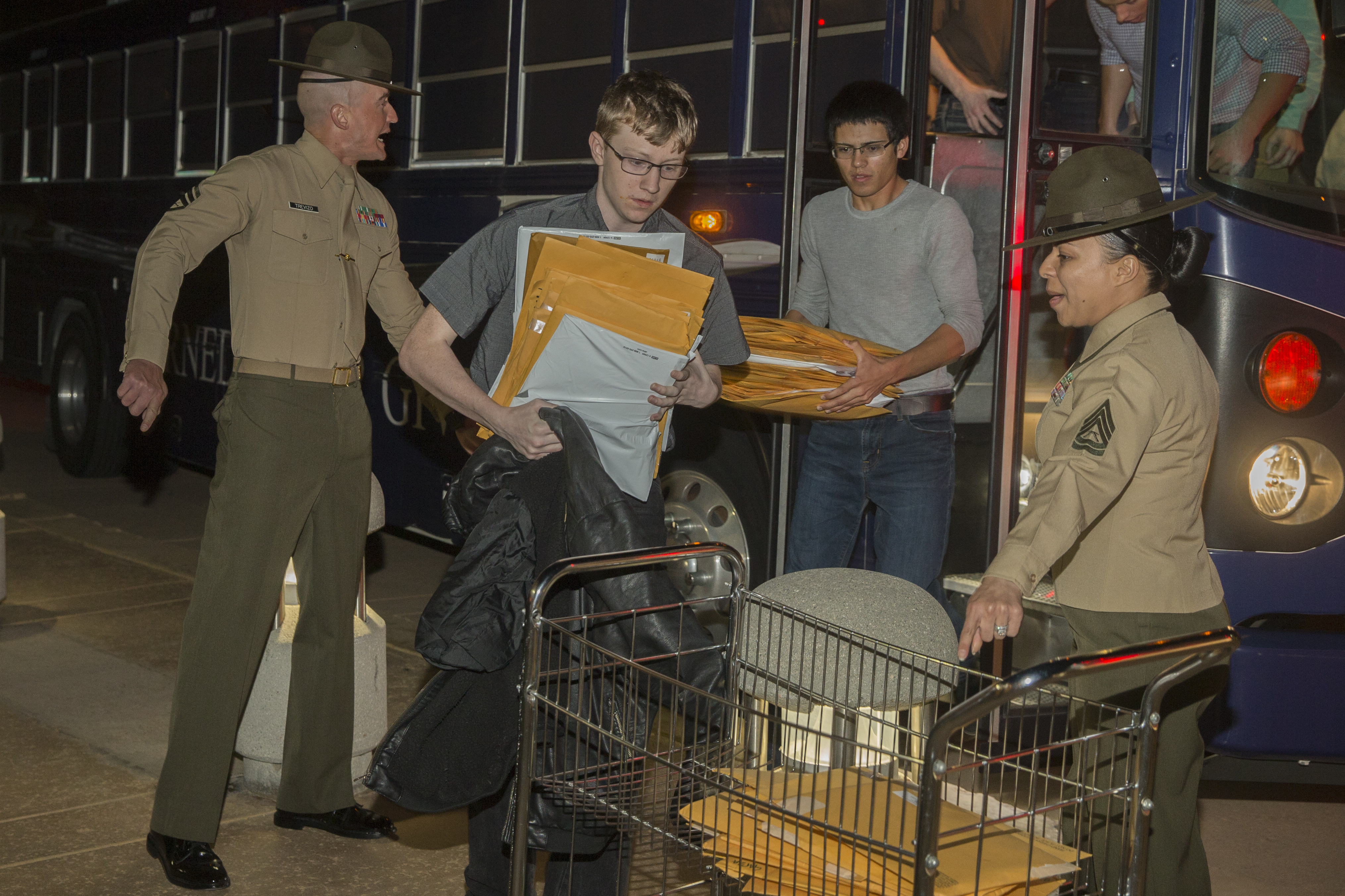 Drill instructors with Receiving Company, Support Battalion, welcome a new recruit with Alpha Company, 1st Recruit Training Battalion, to recruit training during receiving at Marine Corps Recruit Depot San Diego, March 4. Once the recruits stepped off the bus, they immediately began the transformation from civilian to Marine. Annually, more than 17,000 males recruited from the Western Recruiting Region are trained at MCRD San Diego. Alpha Company is scheduled to graduate May 31.